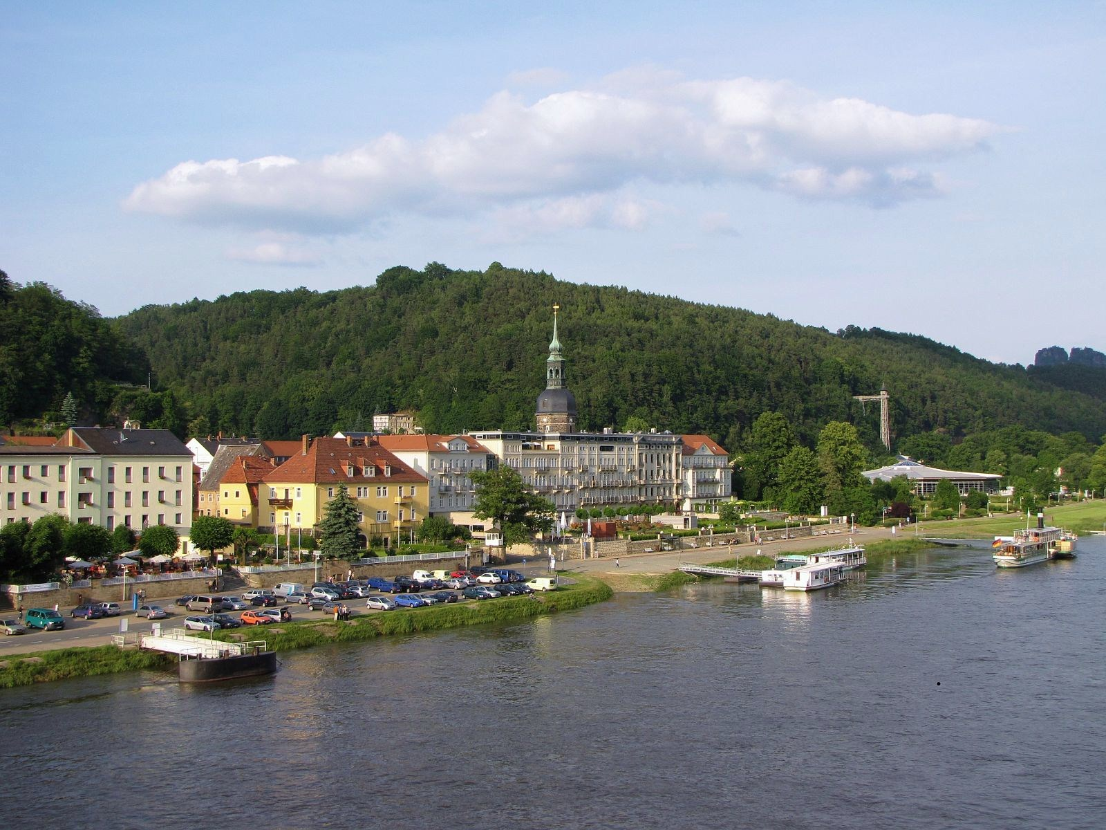 Germany / Saxony: The historic centre of Bad Schandau in Saxon Switzerland, seen from the opposite bank of the Elbe